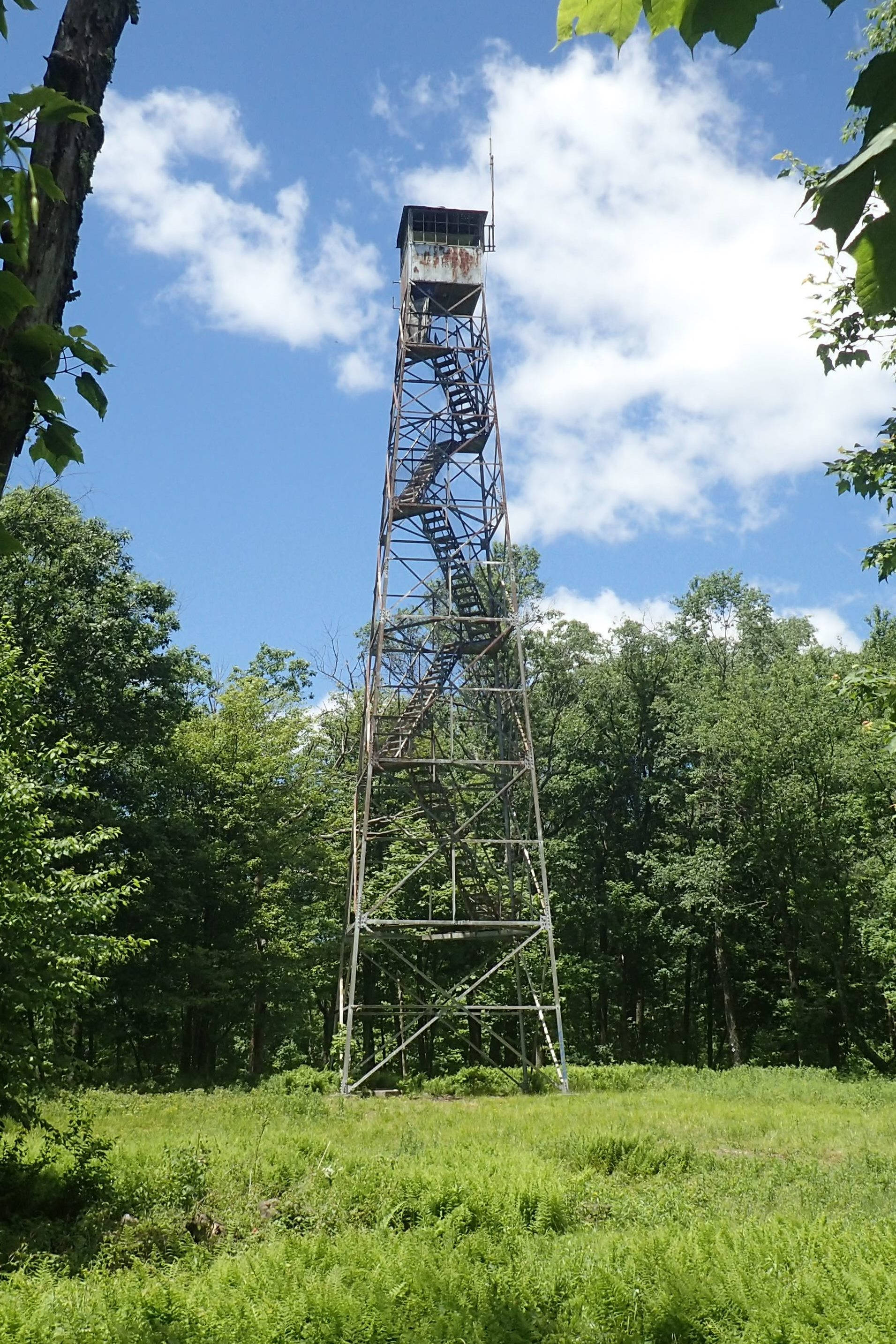 Rock Rift Fire Observation Tower can be reached by FLTC (Finger Lakes Trail Conference) trails in the Town of Tompkins, Delaware County, New York